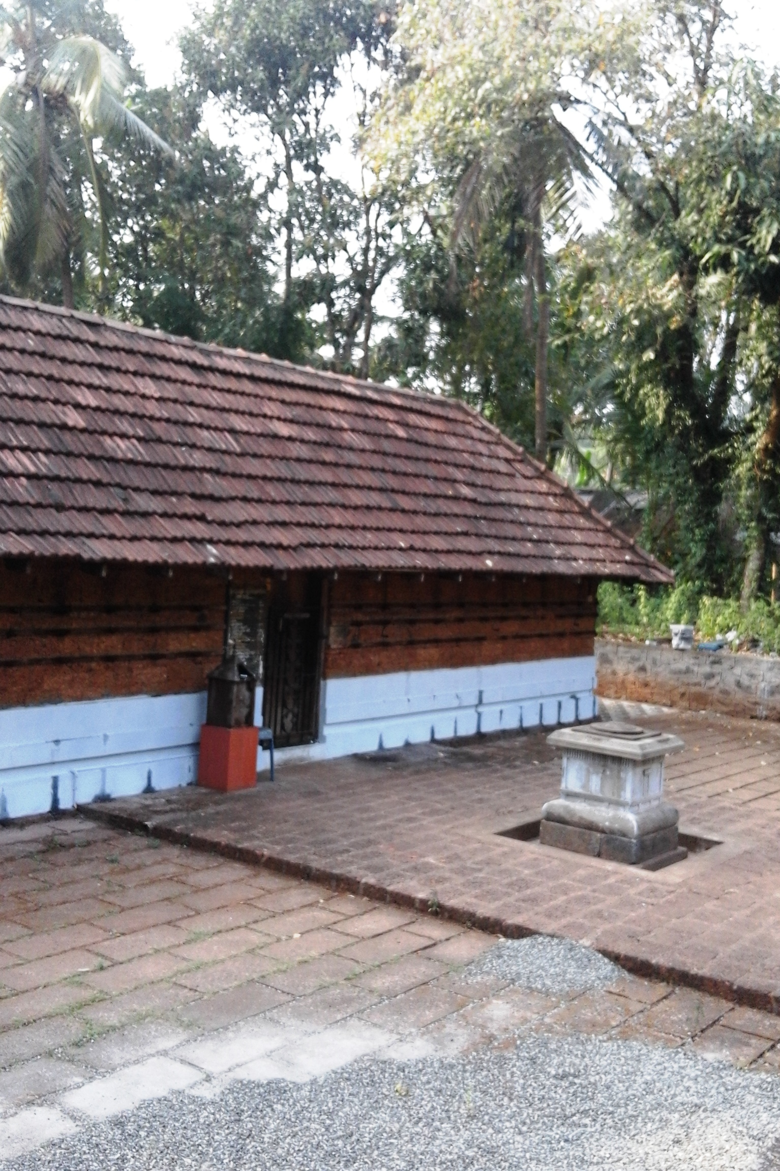 Kolappuram, Tirurangadi, Malappuram District, Kerala province, India.